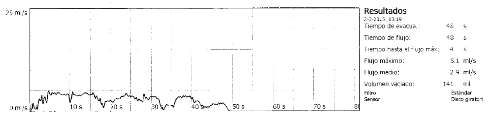 Obstructive uroflowmetry